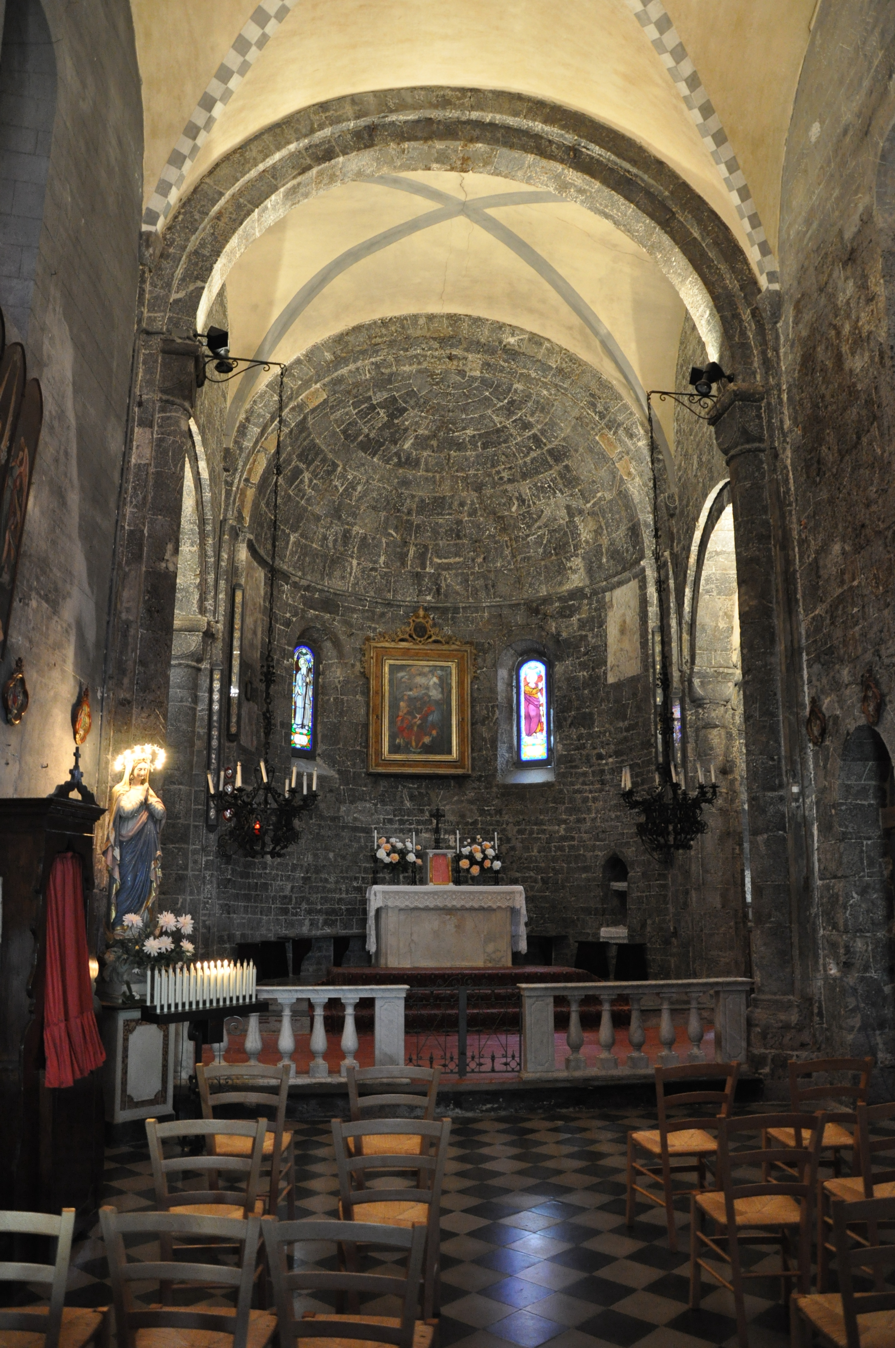 San Nicolò church in San Rocco fraction of Camogli